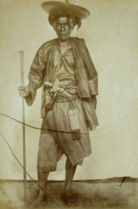 Portrait of a penghulu in adat clothes